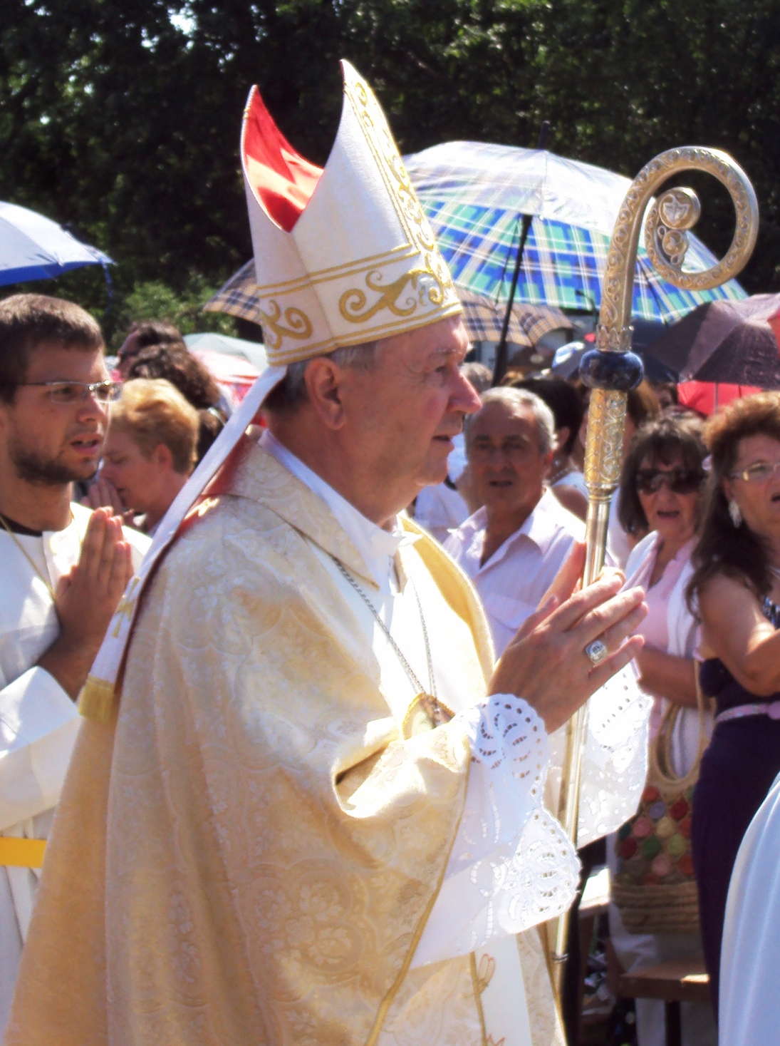 Croatian bishop Josip Mrzljak